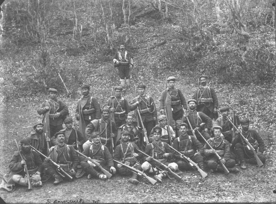 Cheta of IMARO member Boncho Vasilev